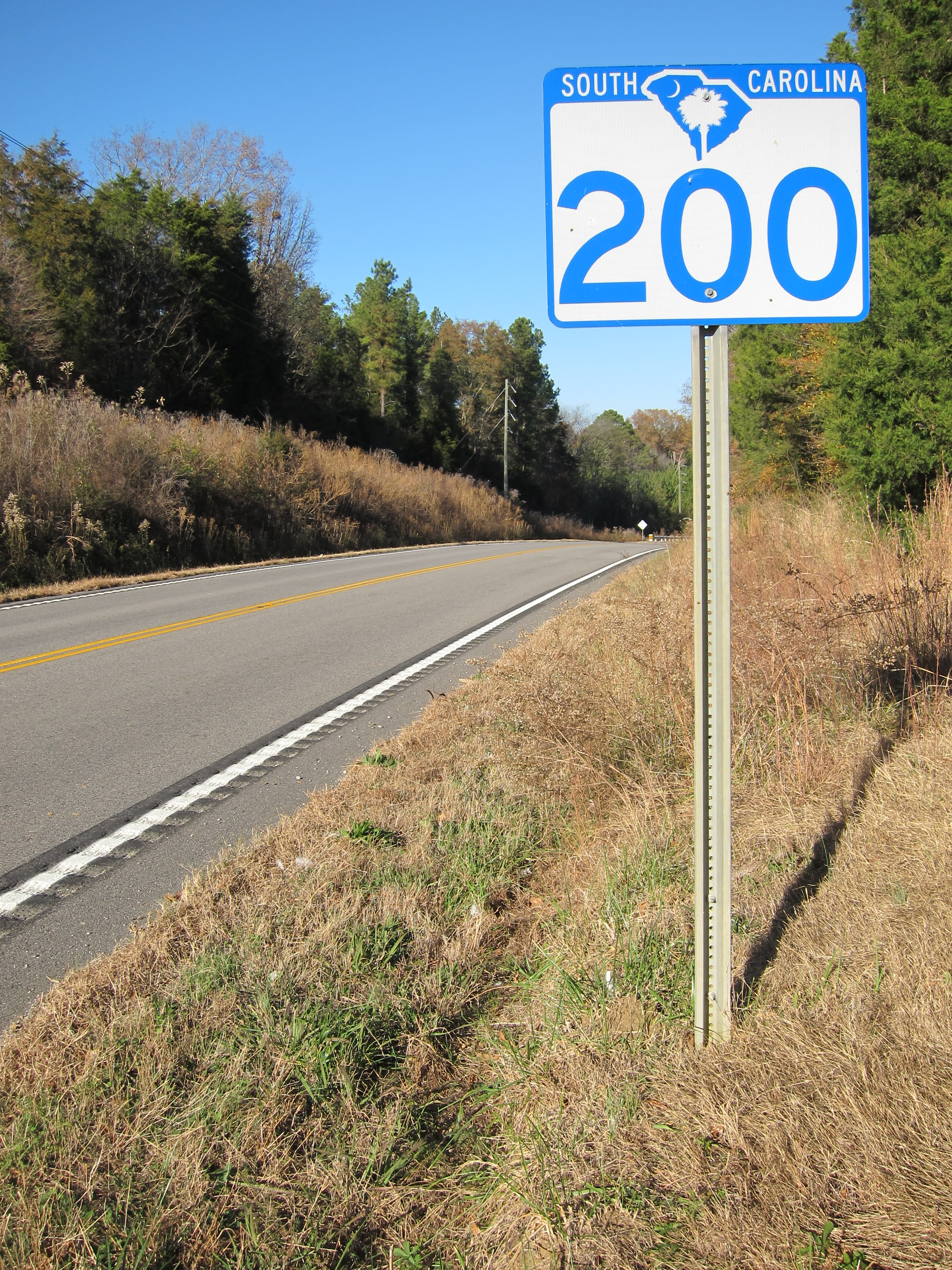 South Carolina Highway 200 (Eastbound), at the SC 901 interchange in Fairfield County.